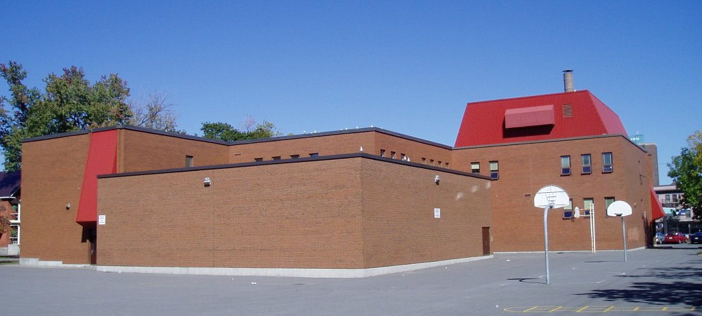 Taken by SimonP